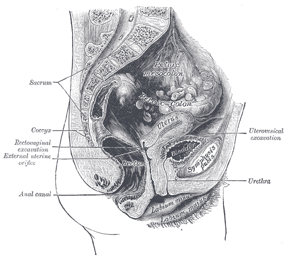 Median sagittal section of female pelvis.